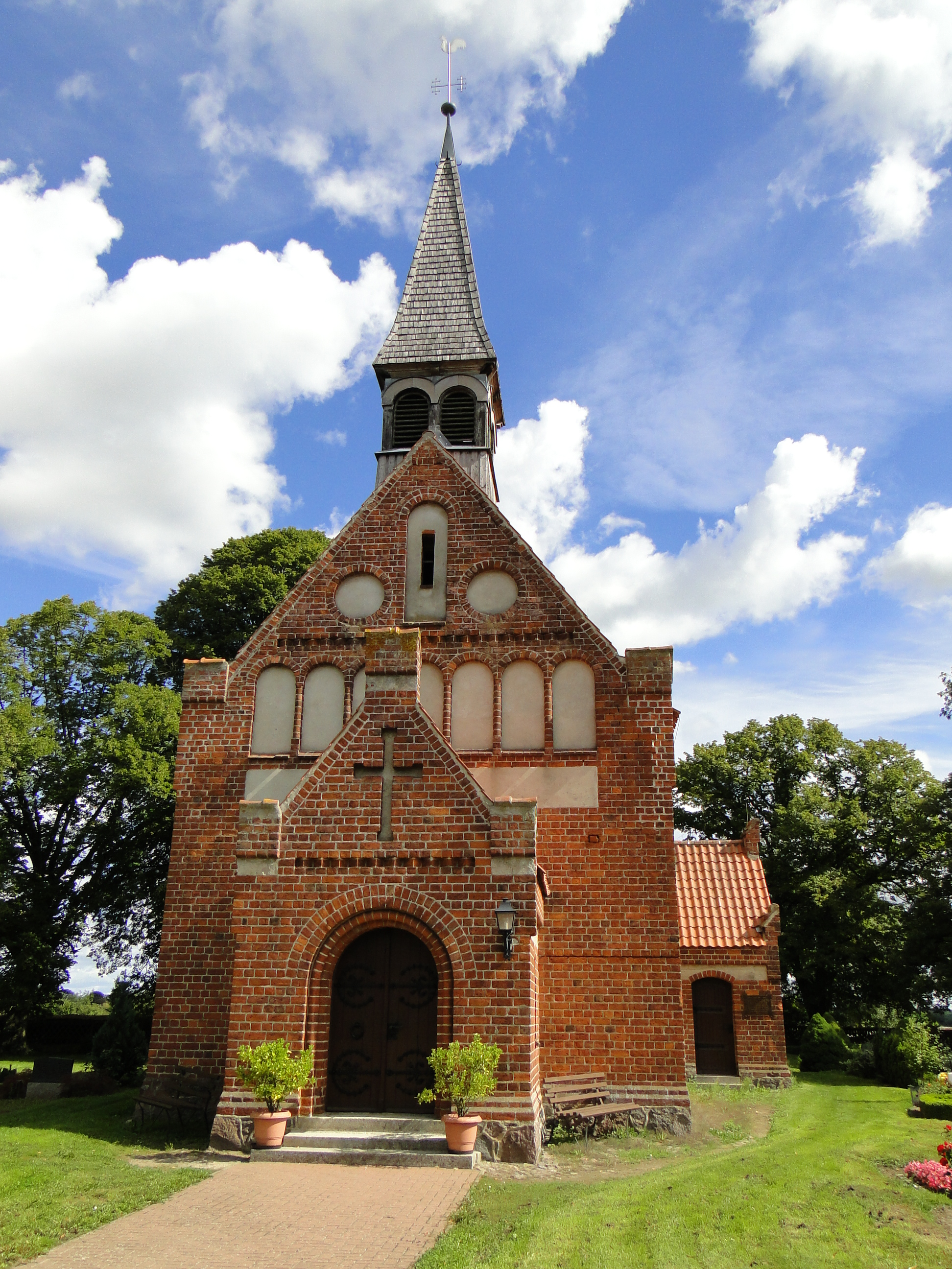 Church in Marihn, district Müritz, Mecklenburg-Vorpommern, Germany